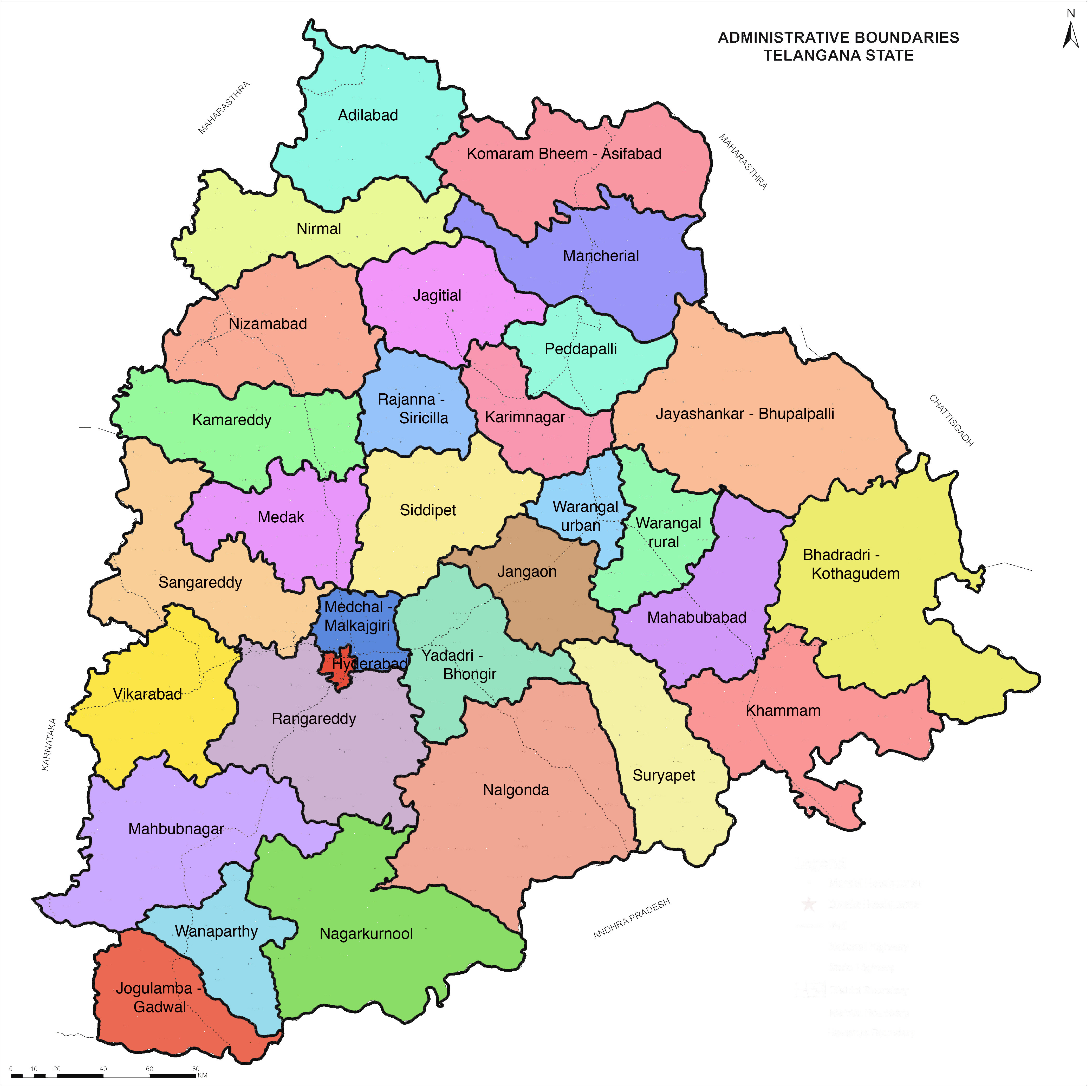 Names and boundaries of the new districts created on October 11th 2016